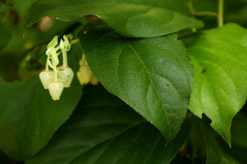 Speaking of salal (Gaultheria shallon), here are the leaves and flowers of that plant. Native folks ate the berries fresh and dried, often formed into cakes.